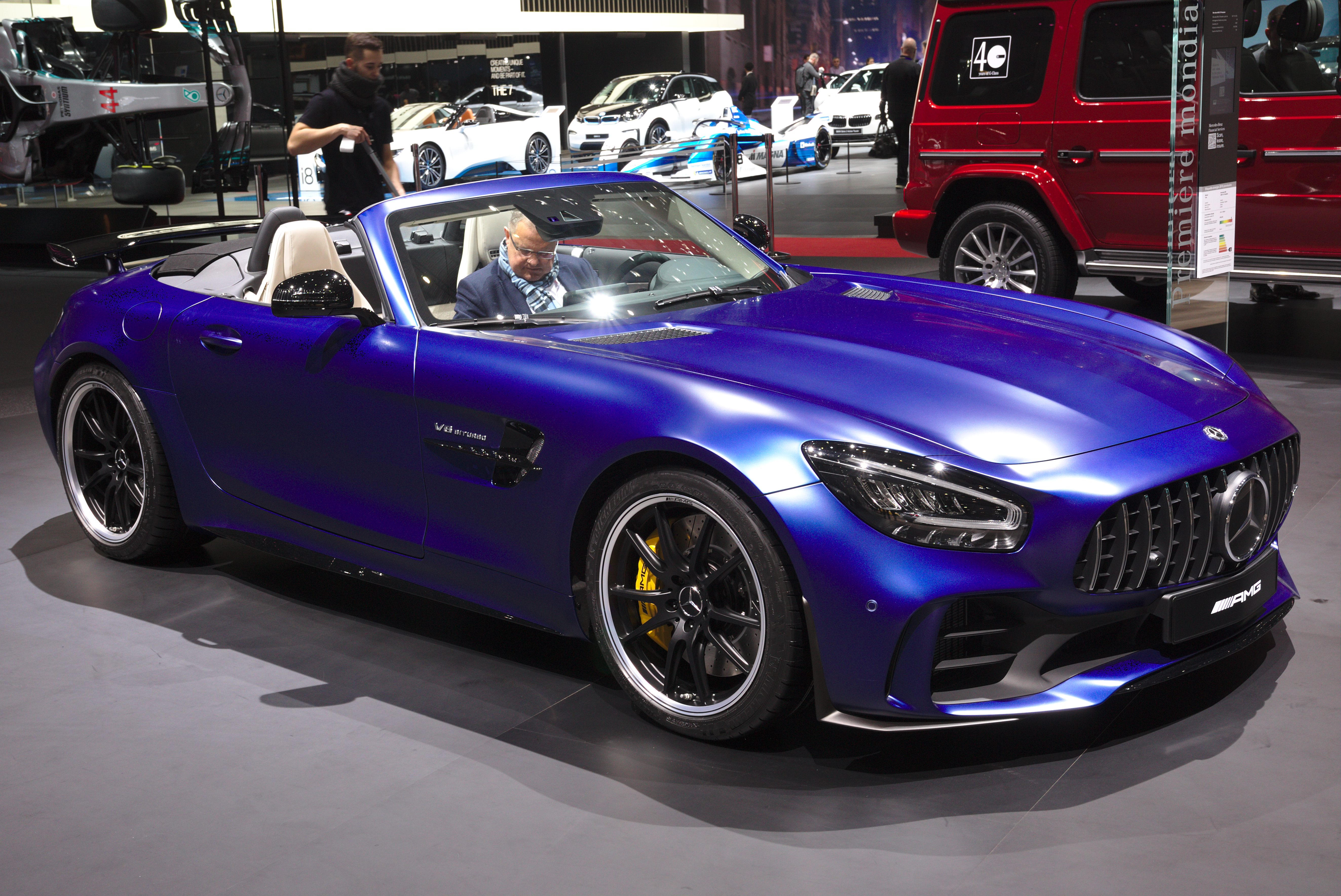 Mercedes-AMG GT R Roadster at Geneva Motor Show 2019